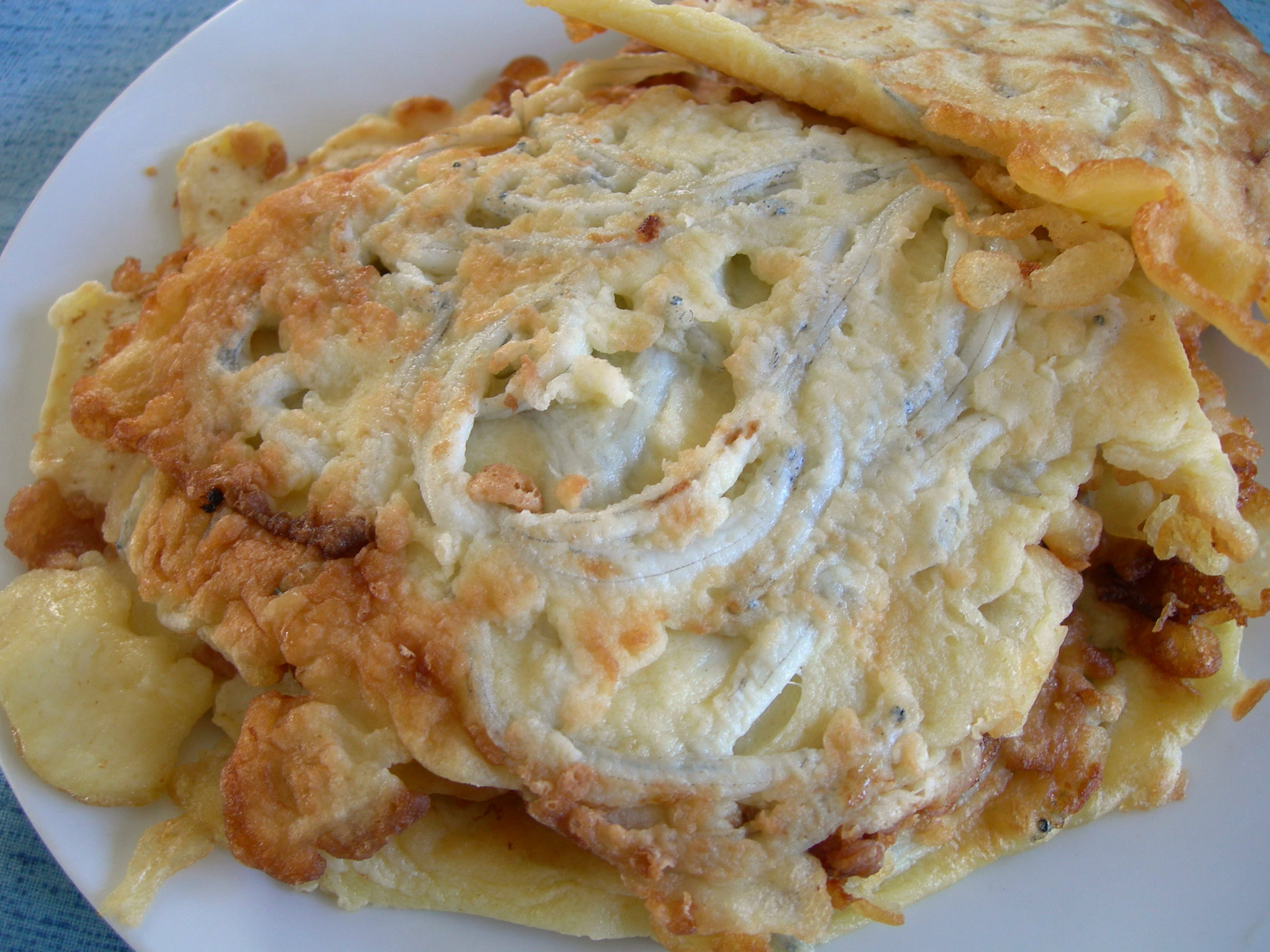 A plate of Whitebait Fritters, C. Botica 2007